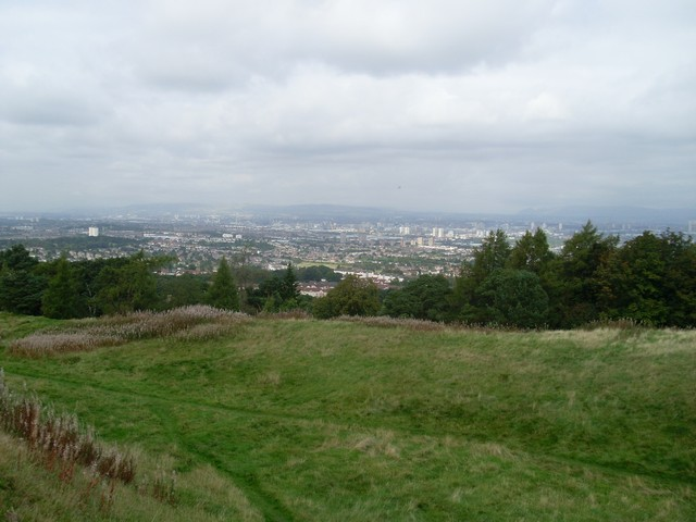 Across Glasgow from the Cathkin Braes Looking northwest across the city from nearby the viewpoint.